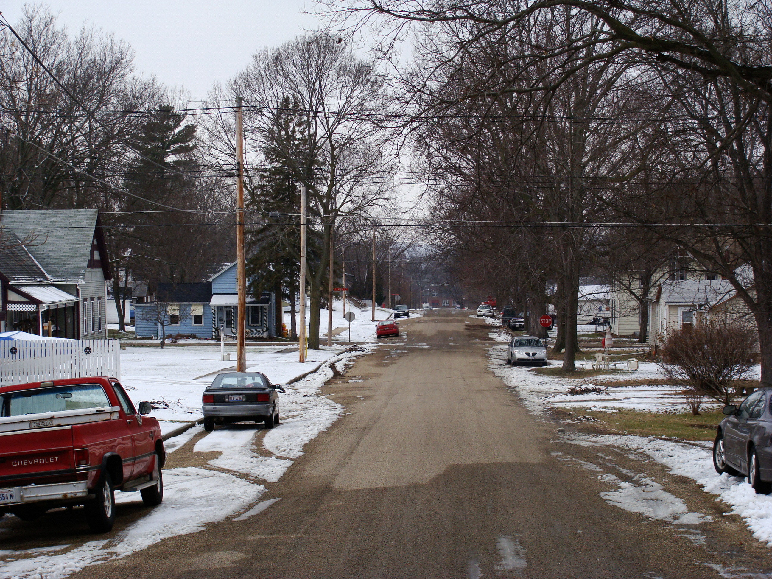 Residential street in Lacon, Illinois. First cross street is S. High St.